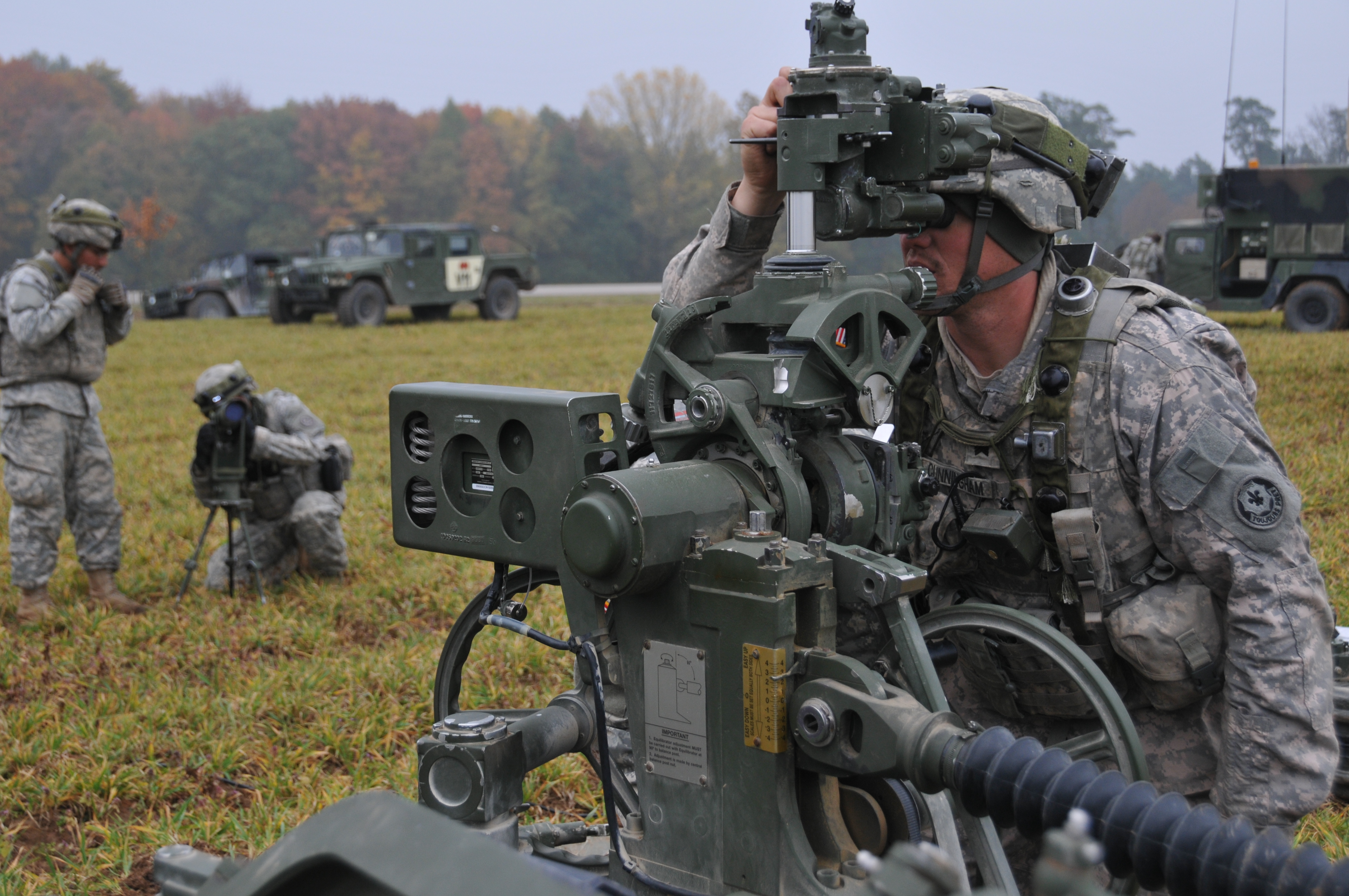 U.S. Army Sgt. Scott Cunningham, foreground, with Alpha Battery, Field Artillery Squadron, 2nd Cavalry Regiment, aligns the sight on an M777 howitzer to the collimator with the help of two Soldiers during a decisive action training environment exercise at the Joint Multinational Readiness Center in Hohenfels, Germany, Oct. 25, 2012, during Saber Junction 2012. Saber Junction is a U.S. Army 2nd Cavalry Regiment-led exercise designed to prepare U.S. and international partner forces for a NATO deployment to Afghanistan.